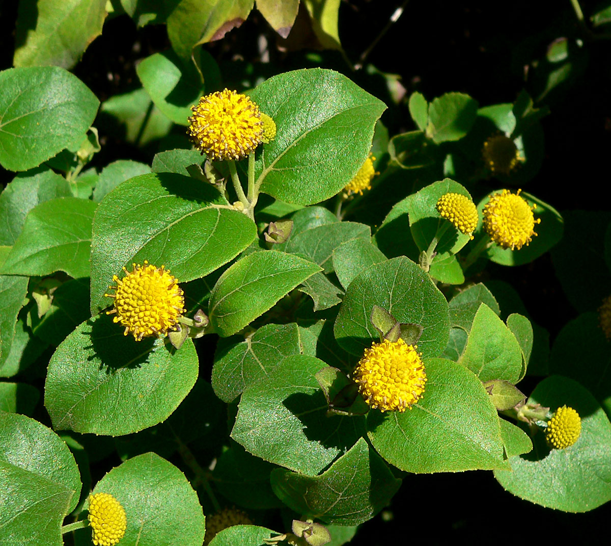 Podanthus ovatifolius at the University of California Botanical Garden, Berkeley, California